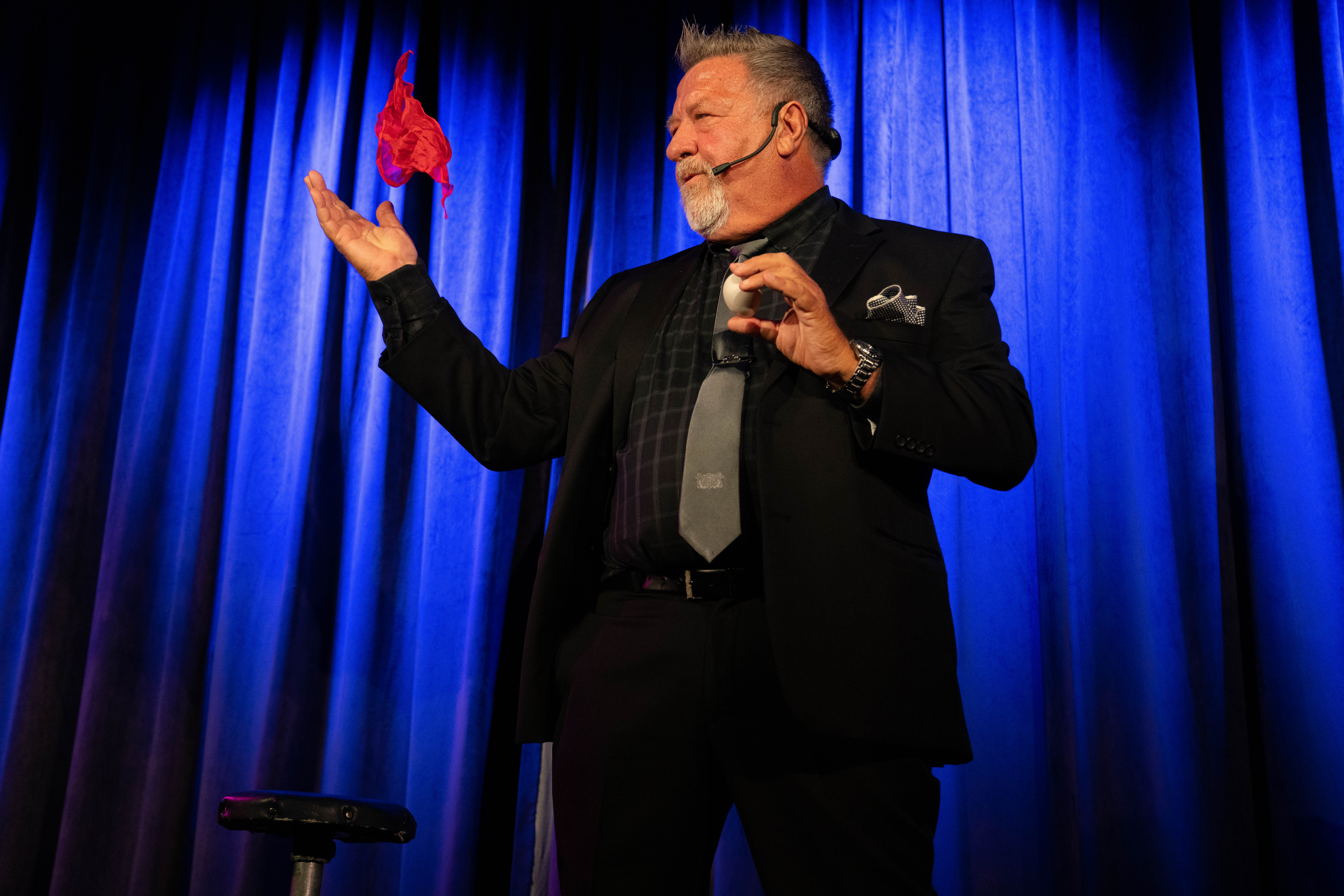 Photo of John Ferrentino Performing